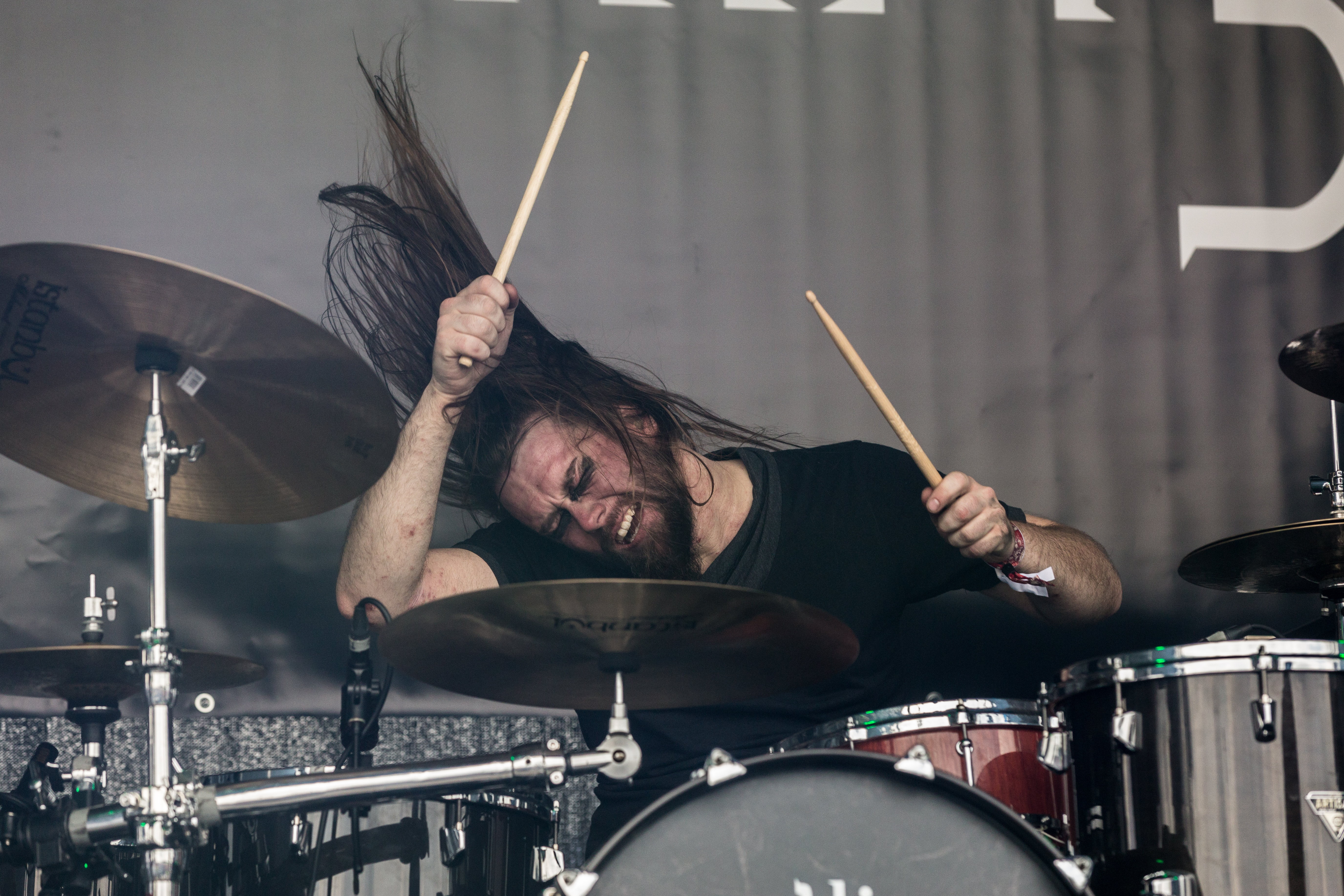 The German Neue Deutsche Härte band Erdling at the Summer Breeze Open Air 2017 in Dinkelsbühl/Germany.